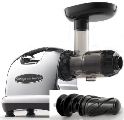 Omega 8006 Juicer